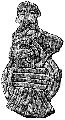 "Found in the huge double barrow in which the heathen king Gorm the Old, founder of the Danish monarchy (c. 900-936), and his Christian wife Thyra, were buried side by side at Jelling at Jutland. The figure is of wood; it represents Christ, but is surrounded by the triskele, the old symbol of Woden."